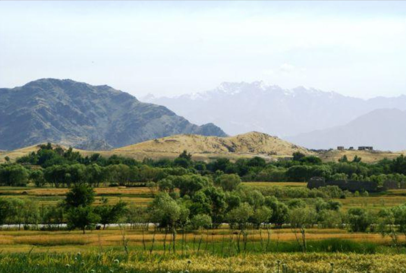 Diva Palwatta Laghman valley